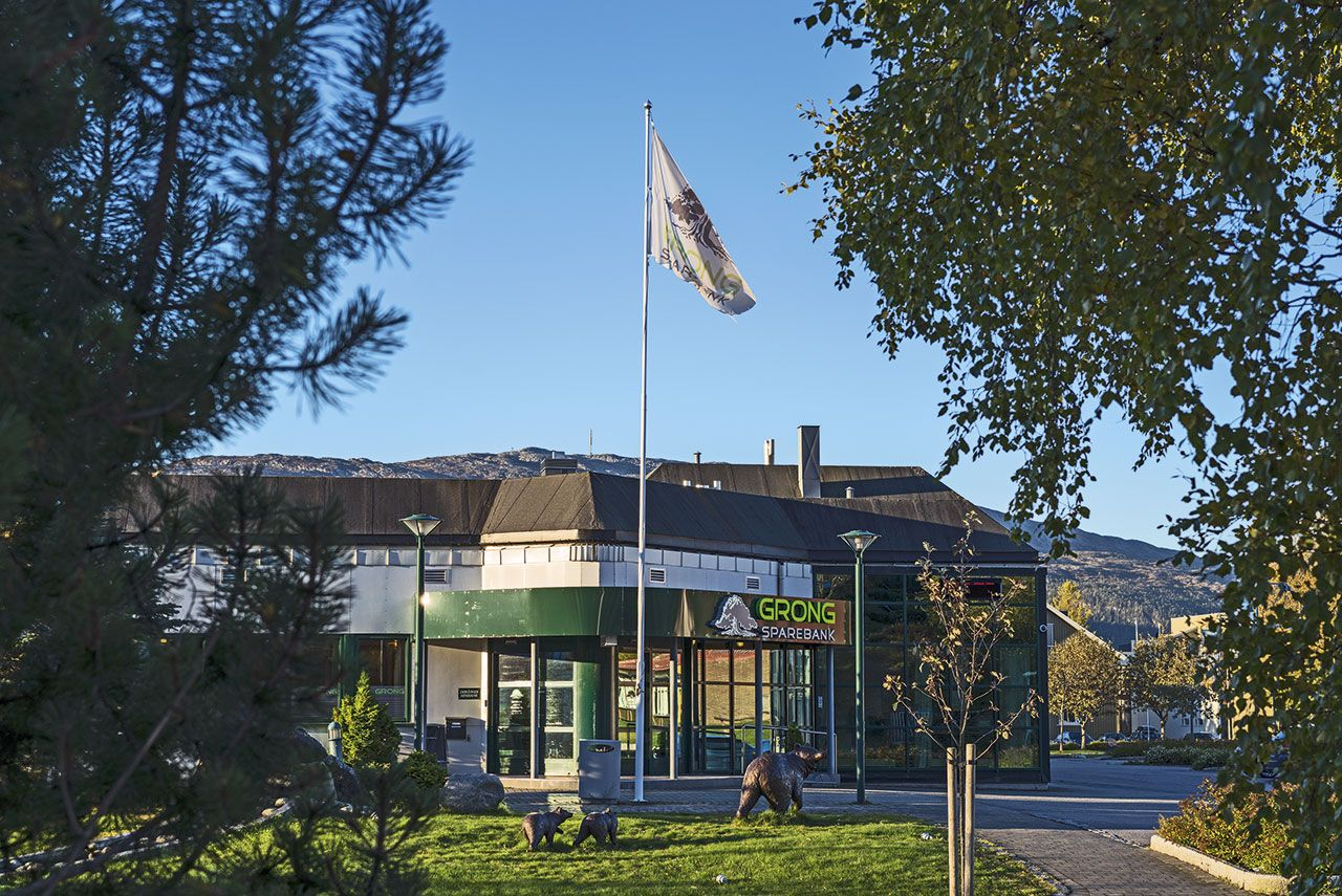 Hovedkontoret til Grong Sparebank